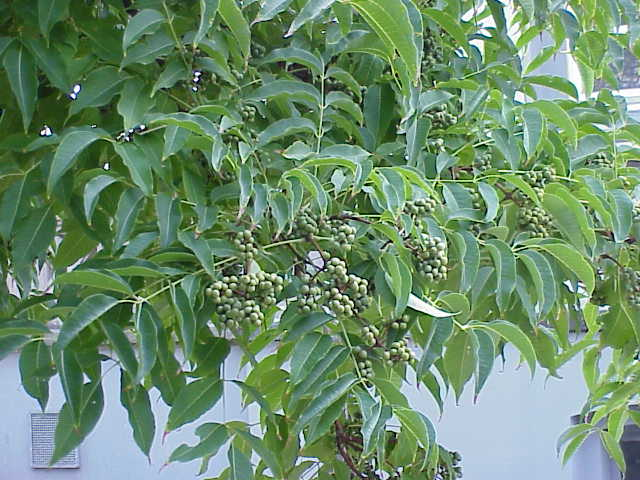 Species: Phellodendron amurense Family: Rutaceae Image No. 4